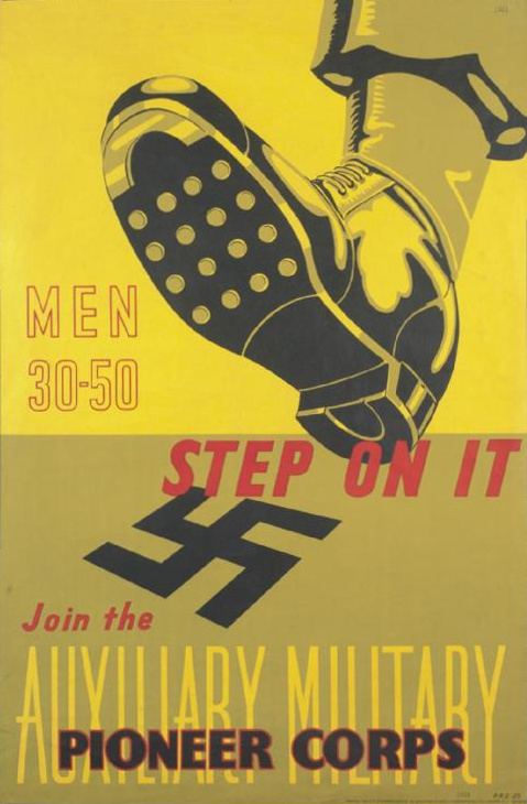 Step on it - Join the Auxiliary Military Pioneer Corps whole: the image occupies the whole, with the title integrated and positioned across the centre, in red. The subtitle is integrated and positioned in the lower quarter, in red, yellow, and black outlined red. The text is integrated and positioned in the centre left, in yellow outlined red. The upper half is set against a yellow background, and the lower half is set against a green background. image: the boot of a British soldier poised to step on a black swastika symbol on the ground. text: MEN 30-50 STEP ON IT Join the AUXILIARY MILITARY PIONEER CORPS P.R.2: 25. PRINTED FOR H.M. STATIONERY OFFICE BY WHITEMAN AND BASS (LITHOGRAPHERS) LTD., LONDON, E.C.1. 51/6863.